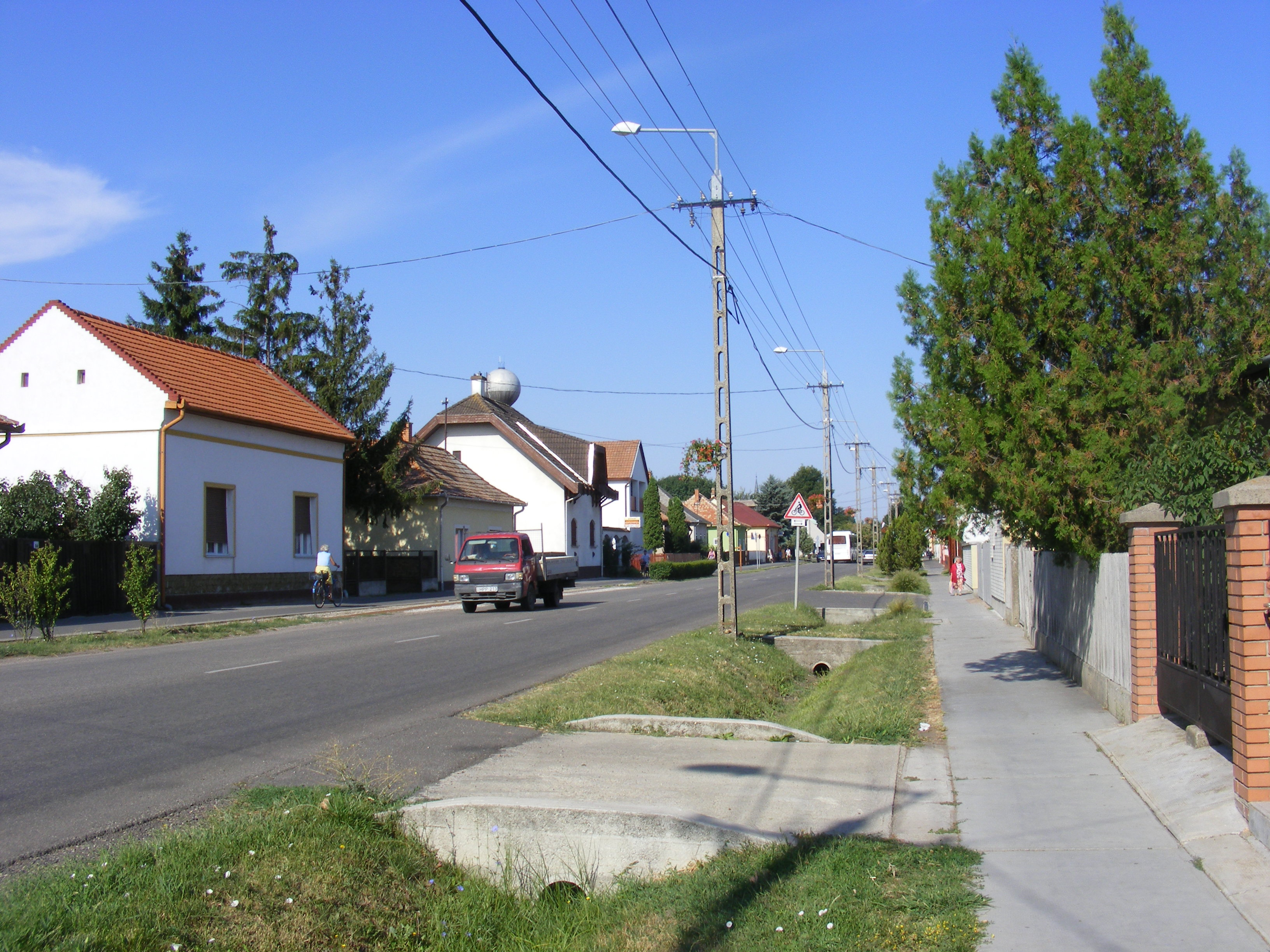 Street in Nádudvar.